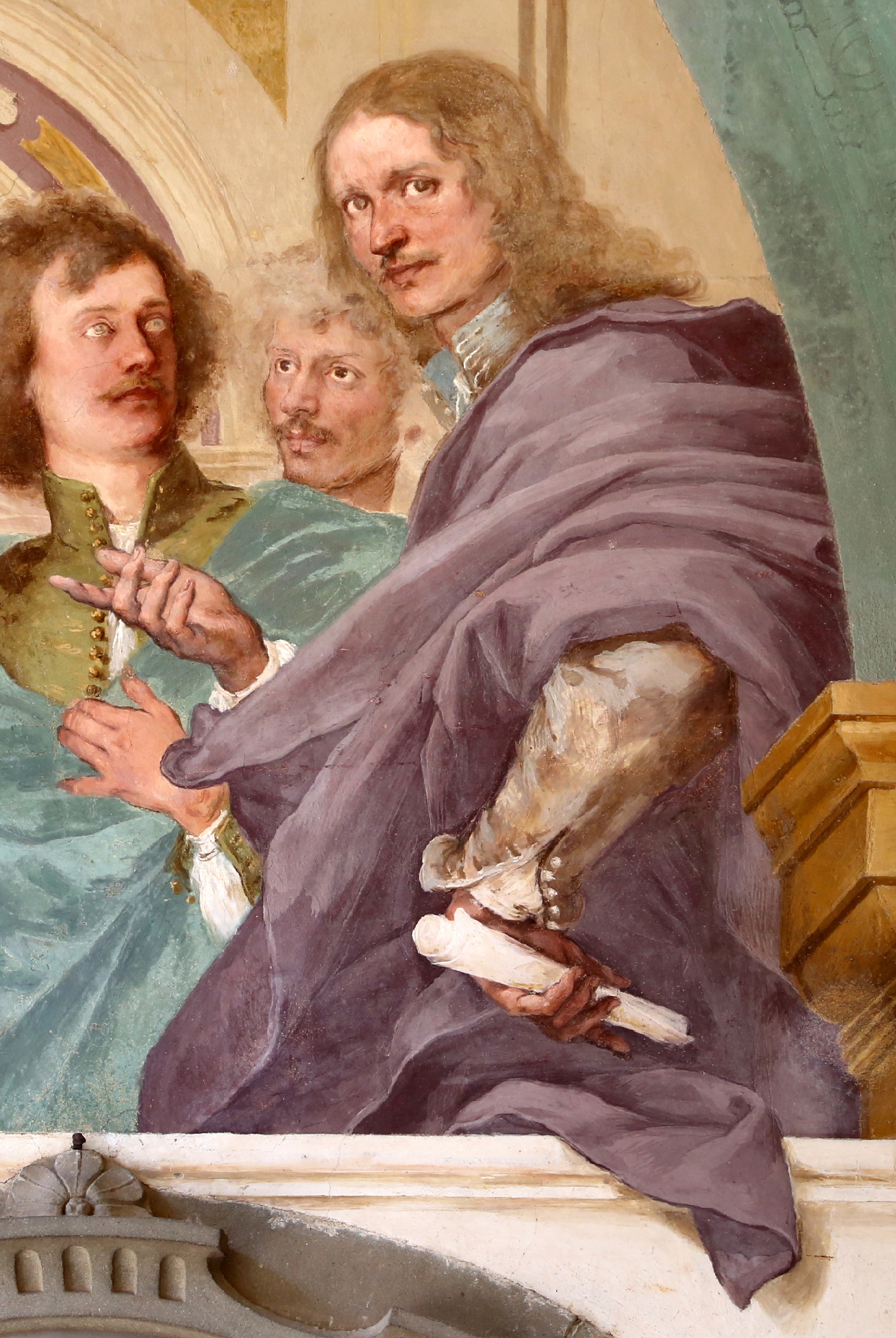 Villa La Petraia